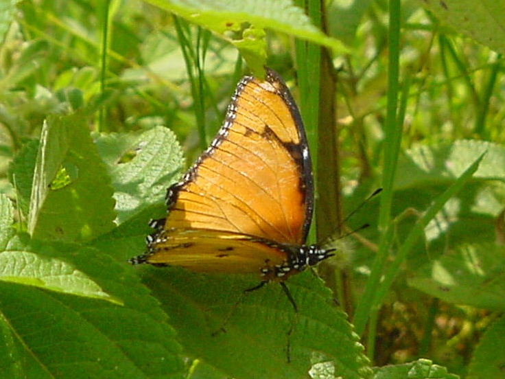 Danaid Eggfly (Hypolimnas misippus) Female form inaria @ GKVK Campus, Bangalore.